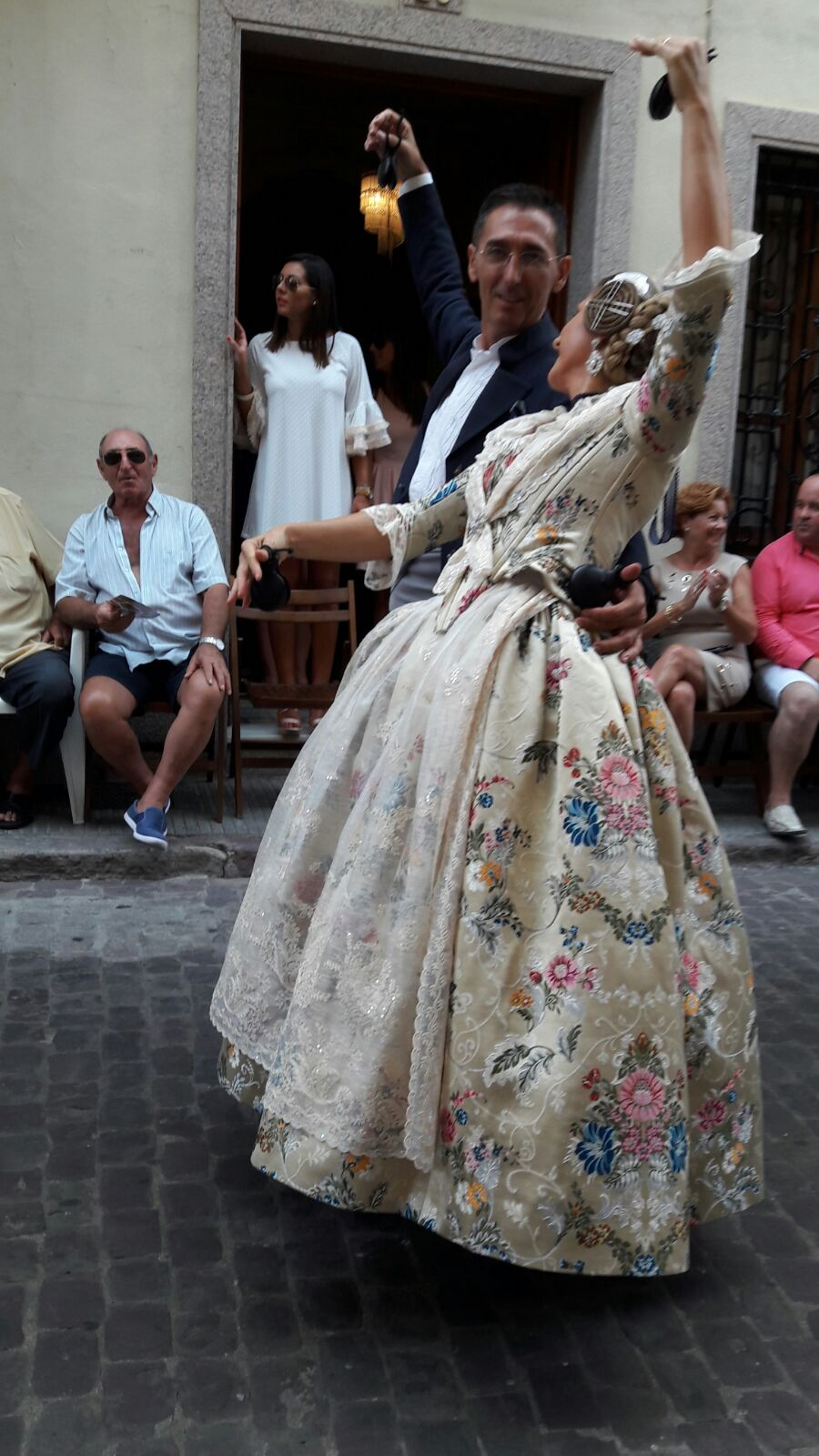 Mare de Déu de la Salut. La Mare de Déu de la Salut Festival is celebrated in September 8, in Alegemesi, Spain and commemorates the legendary discovery in 1247 of a statue depicting the Madonna and Child.